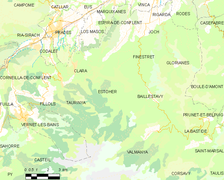 Map of French municipality